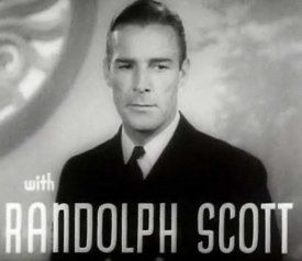 Cropped screenshot of Randolph Scott from the trailer for the film Follow the Fleet.